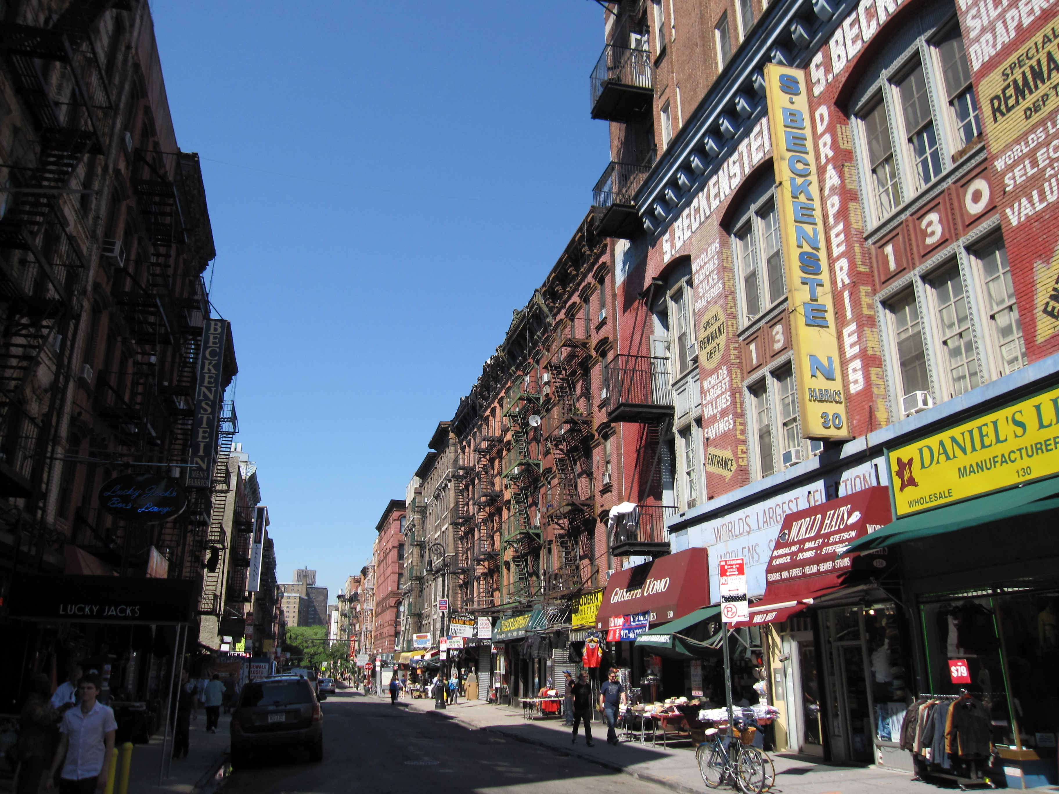 Orchard Street in East Village in Manhattan, with the old headquarters of S. Beckenstein's at 128 Orchard Street to the right.